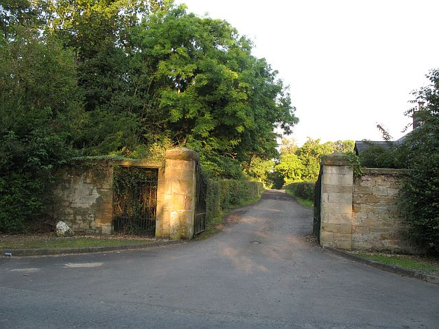 Gate, Preston Hall There is a big house in there somewhere. Gateway with lodge.